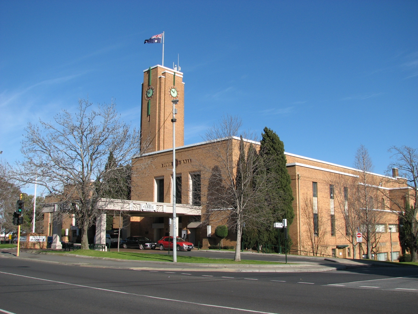 Heidelberg Town Hall in Ivanhoe (suburb of Melbourne), Victoria, Australia.